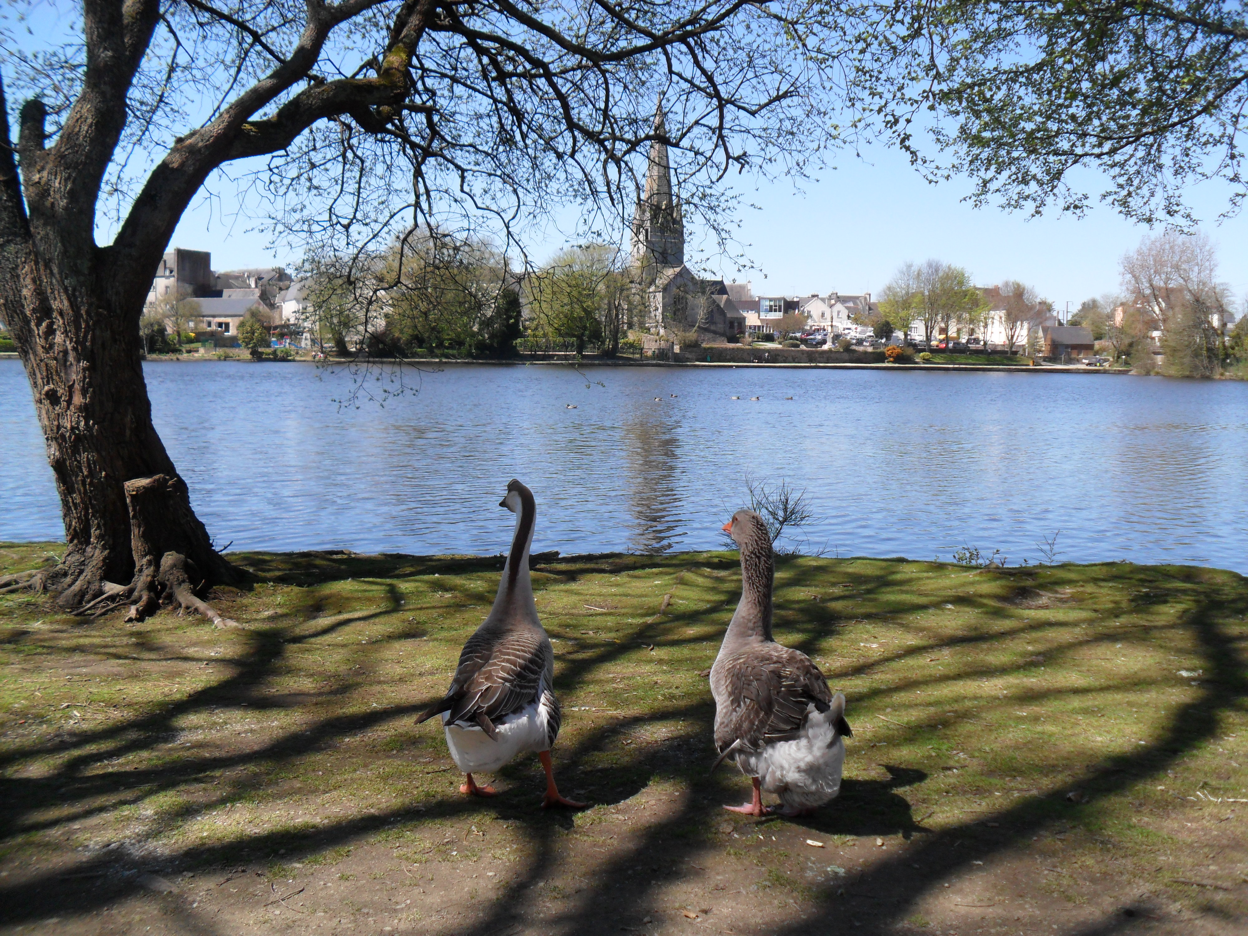 View of Our Lady of Rosporden (France) and his first lake, two ducks will dive into the water.